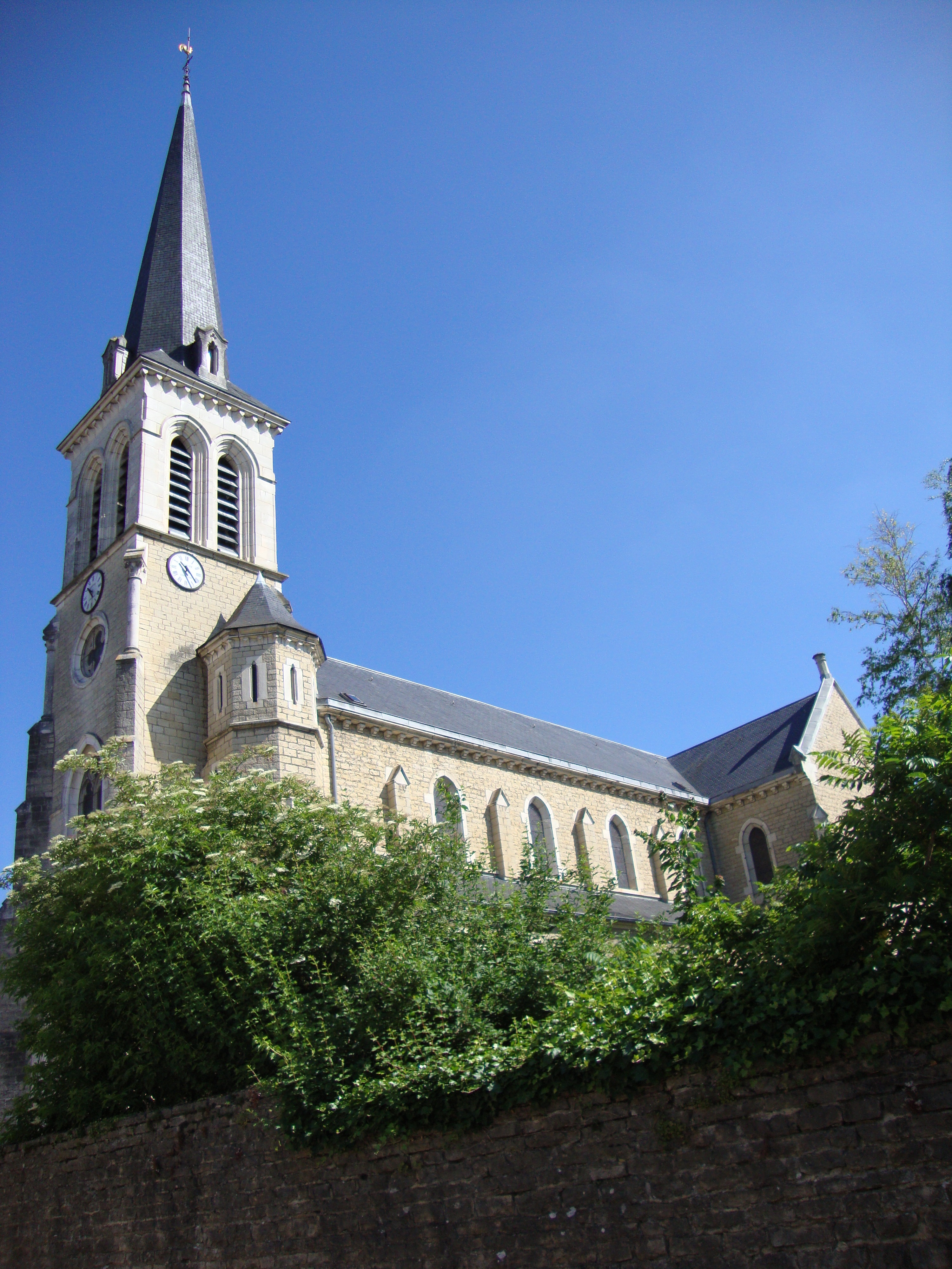 Parish church of Santenay (Côte d'Or, Fr).